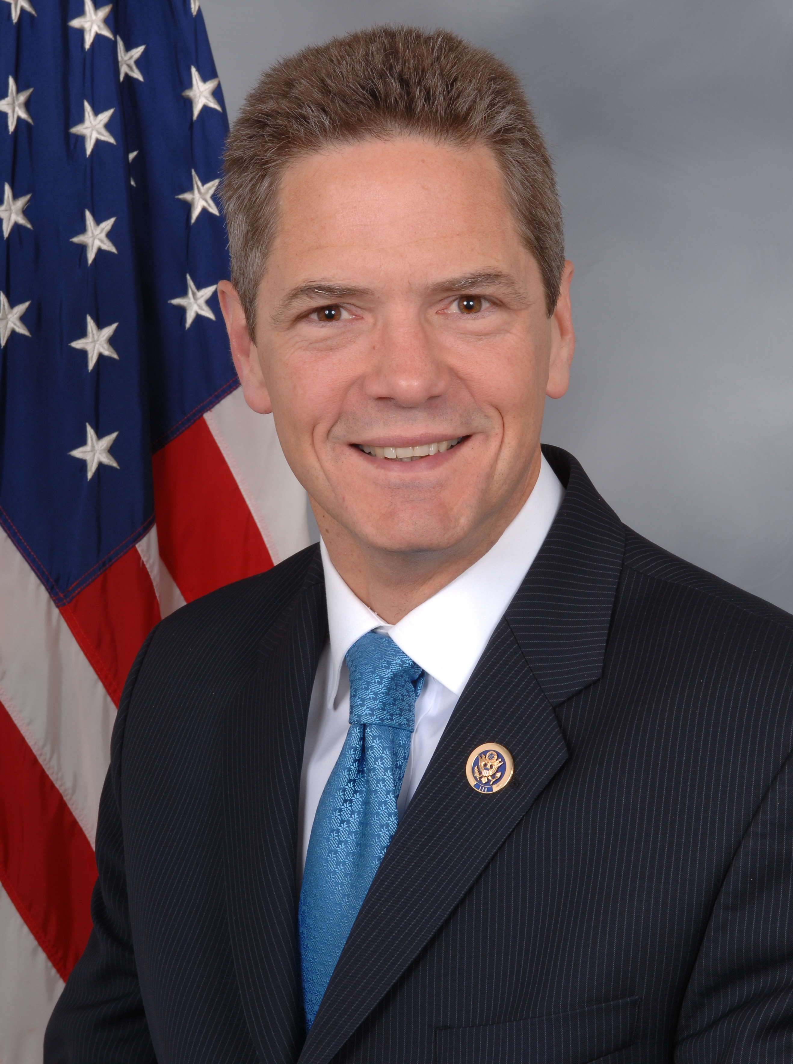 Mark Schauer, member of the United States House of Representatives.